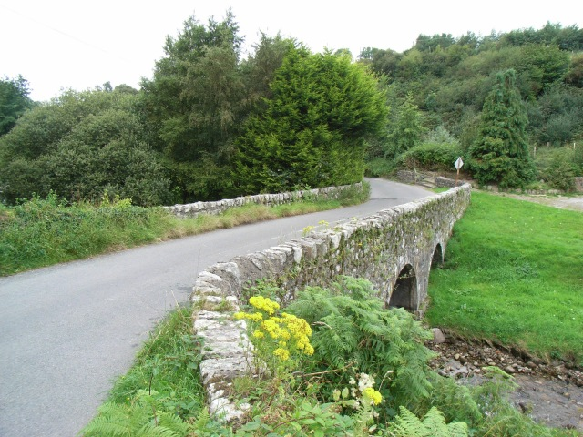 Glencullen Bridge If you've staggered this far from Johnnie Fox's pub you're going the wrong way - Dublin is the opposite direction.